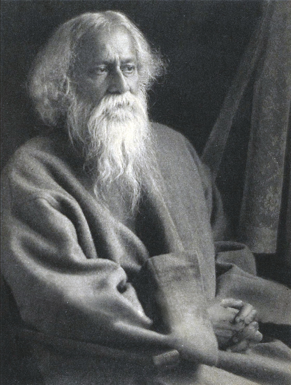 Rabindranath Tagore before 1941